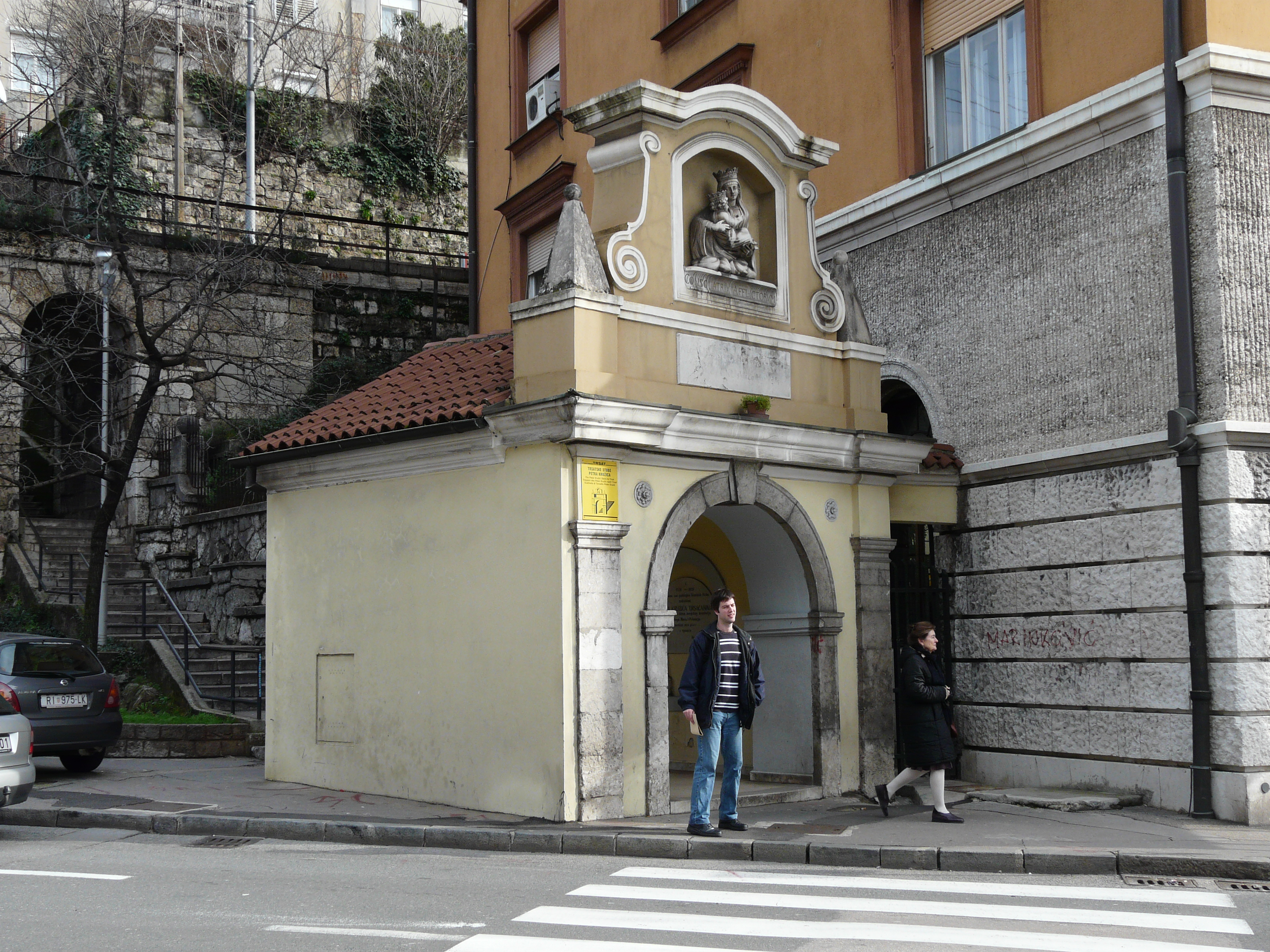 The Arch as gate to starcase, from Rijeka to Trsat